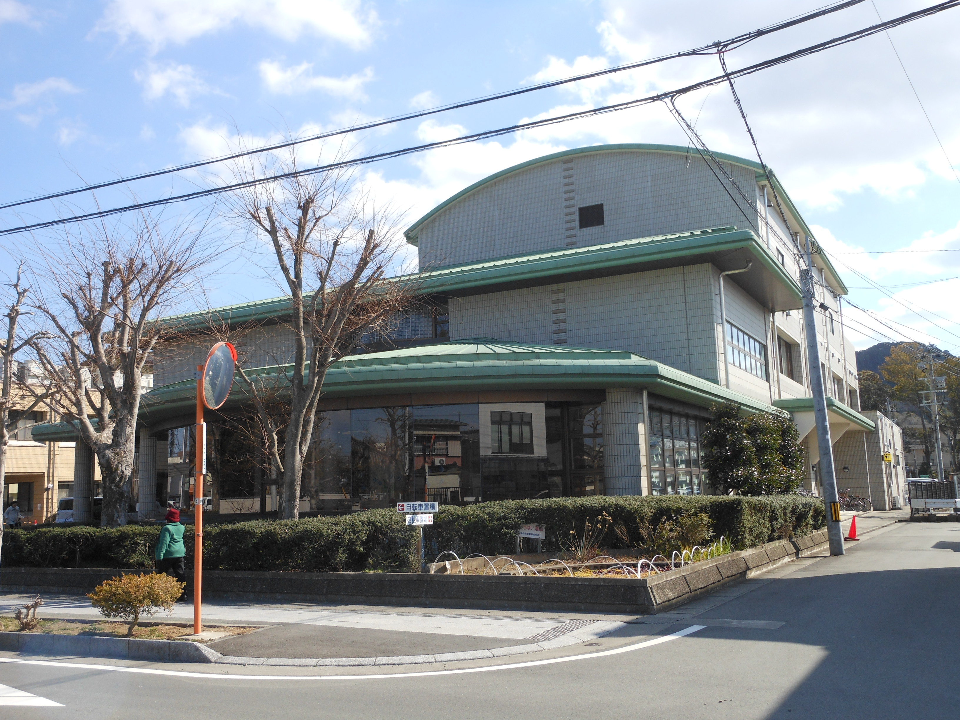 This is the Ise city Ise Library in Ise, Mie, Japan.